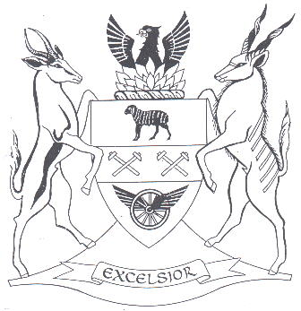 Coat of arms of Usakos, Namibia.